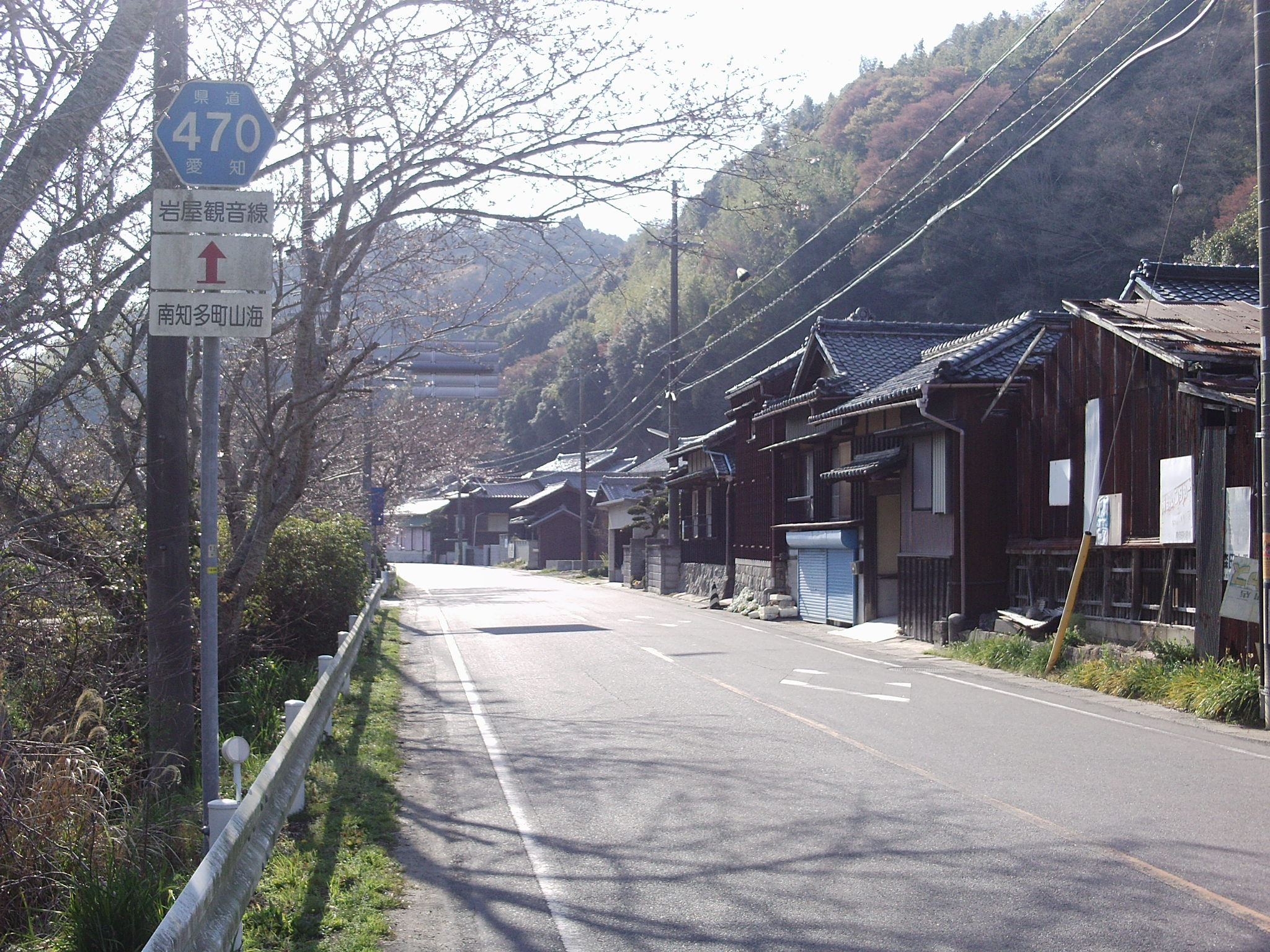 Starting Point of Aichi prefectural road No.470 in Yamami Minamichita-cho Chita-gun, Aichi.